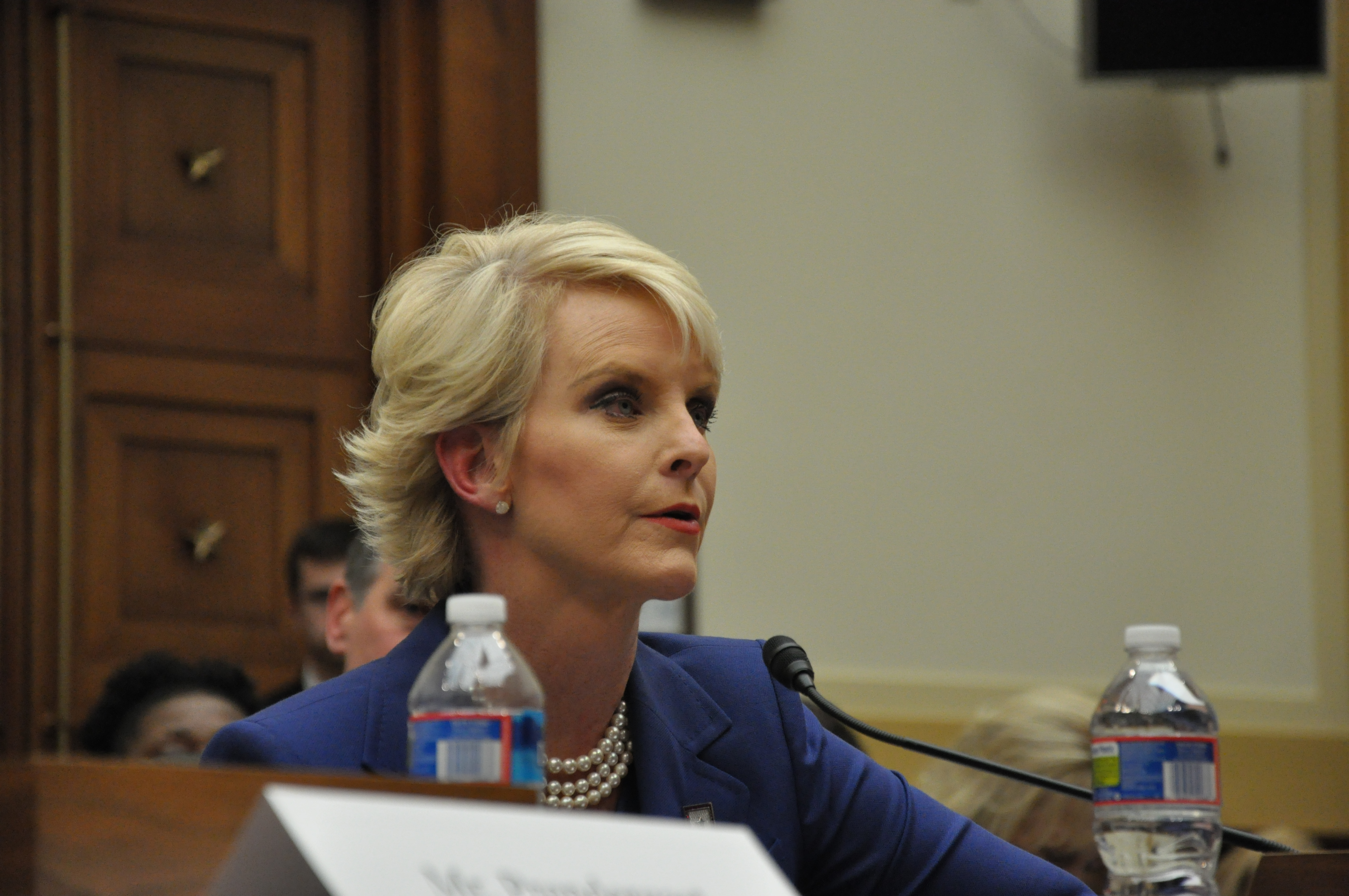 Amanda Bossard/Medill News Service